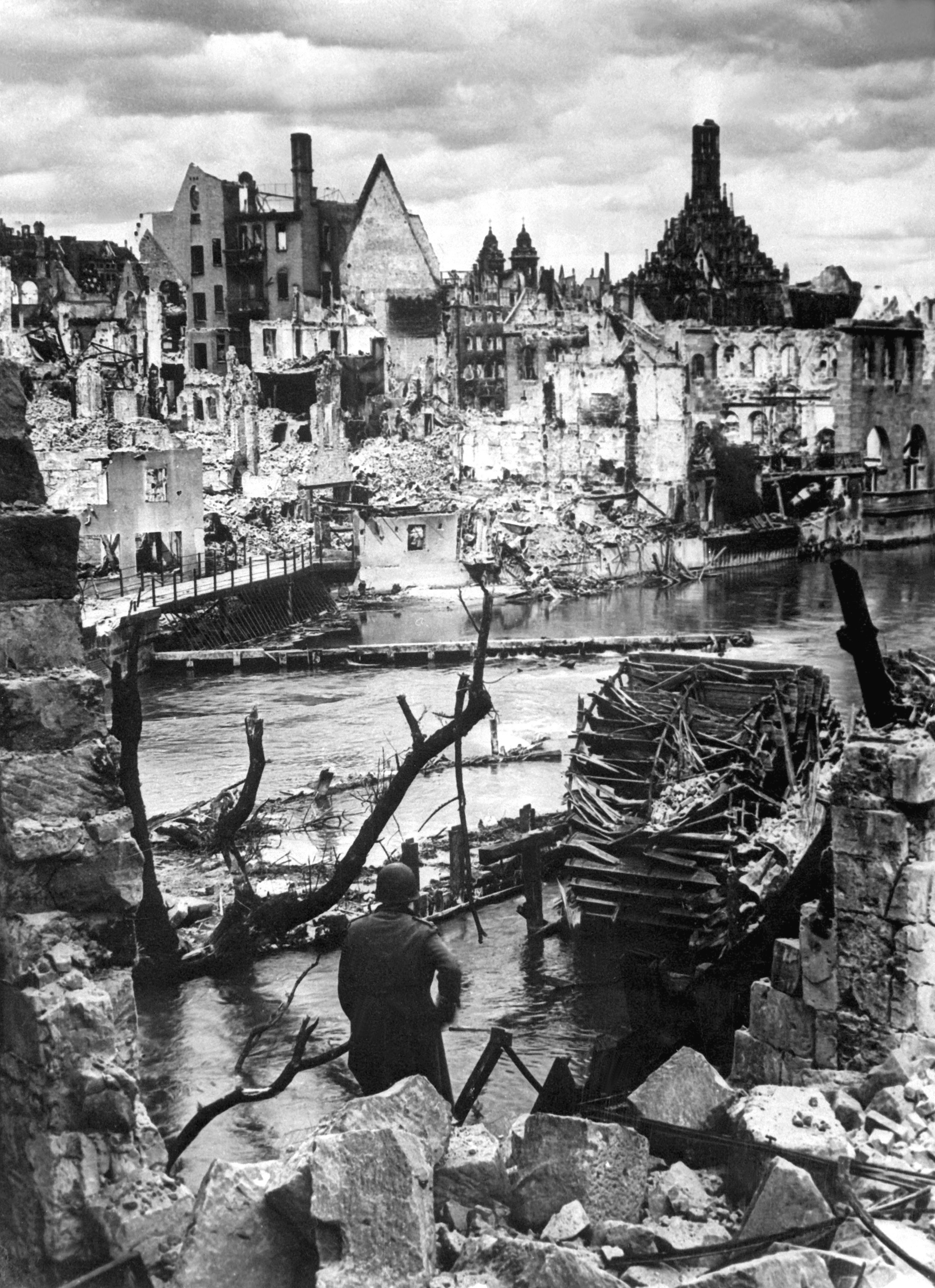 General view of the Bavarian city of Nuremberg. In the distance, the Frauen Church; Behind the destroyed buildings the Hauptmarkt ID: HD-SN-99-02986